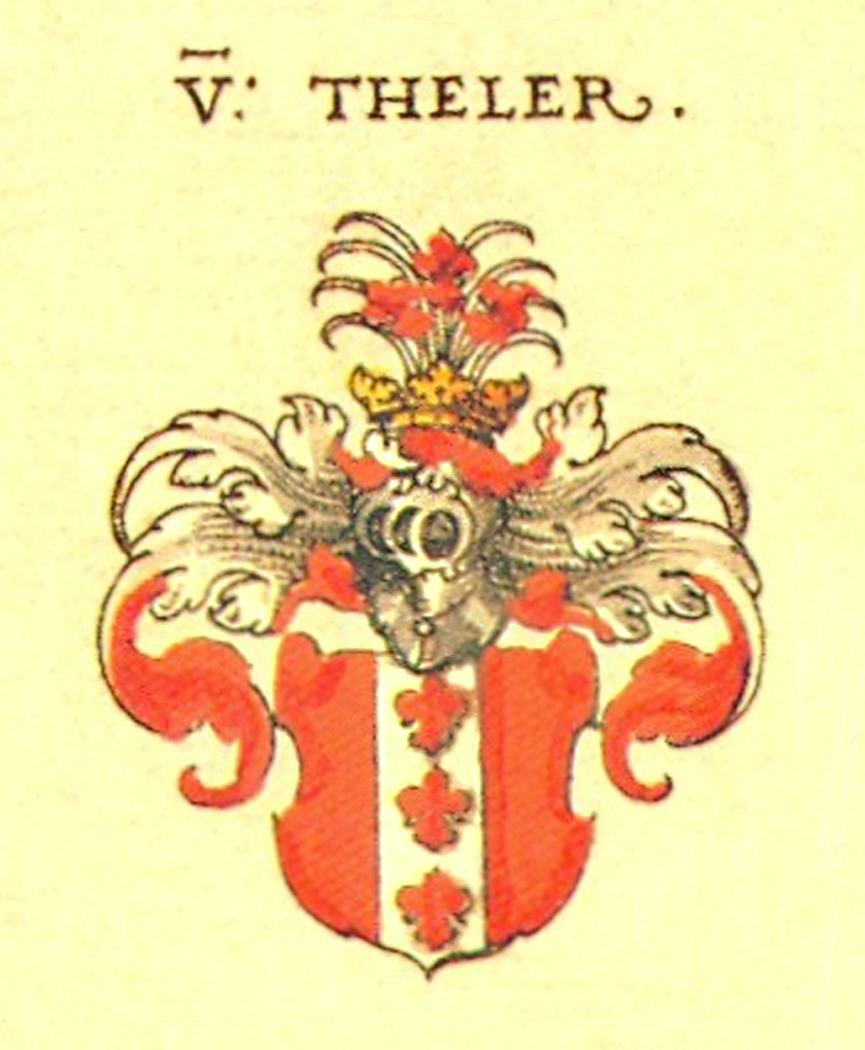 Coats of Arms of Theler, patricians from Freiberg, Saxony